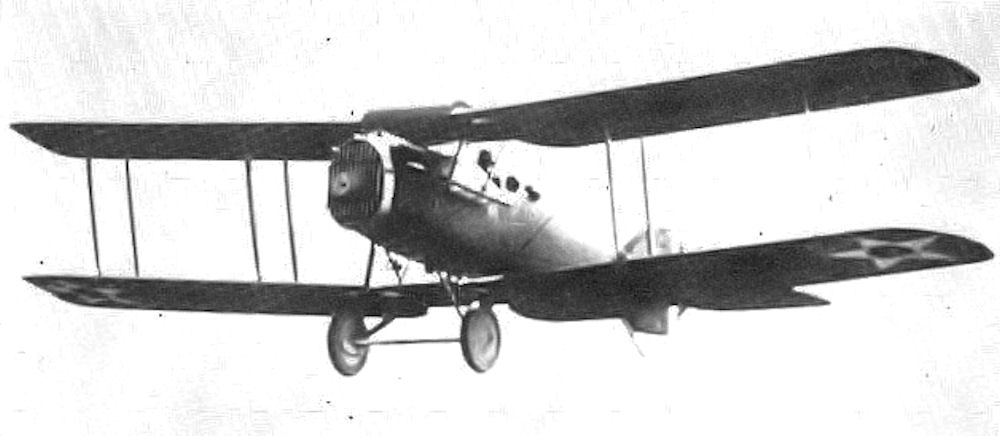 Dayton-Wright XB-1A, McCook Field, Ohio, 1920